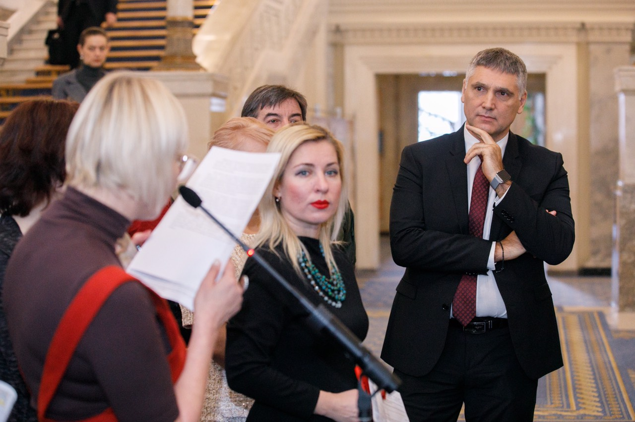 Yurii Miroshnichenko in art galerry opening